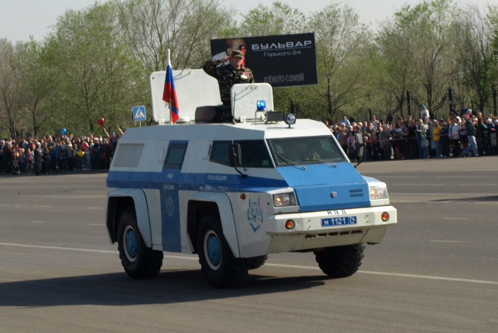 A Russian police vehicle during a parade.The officer is fully in uniform.